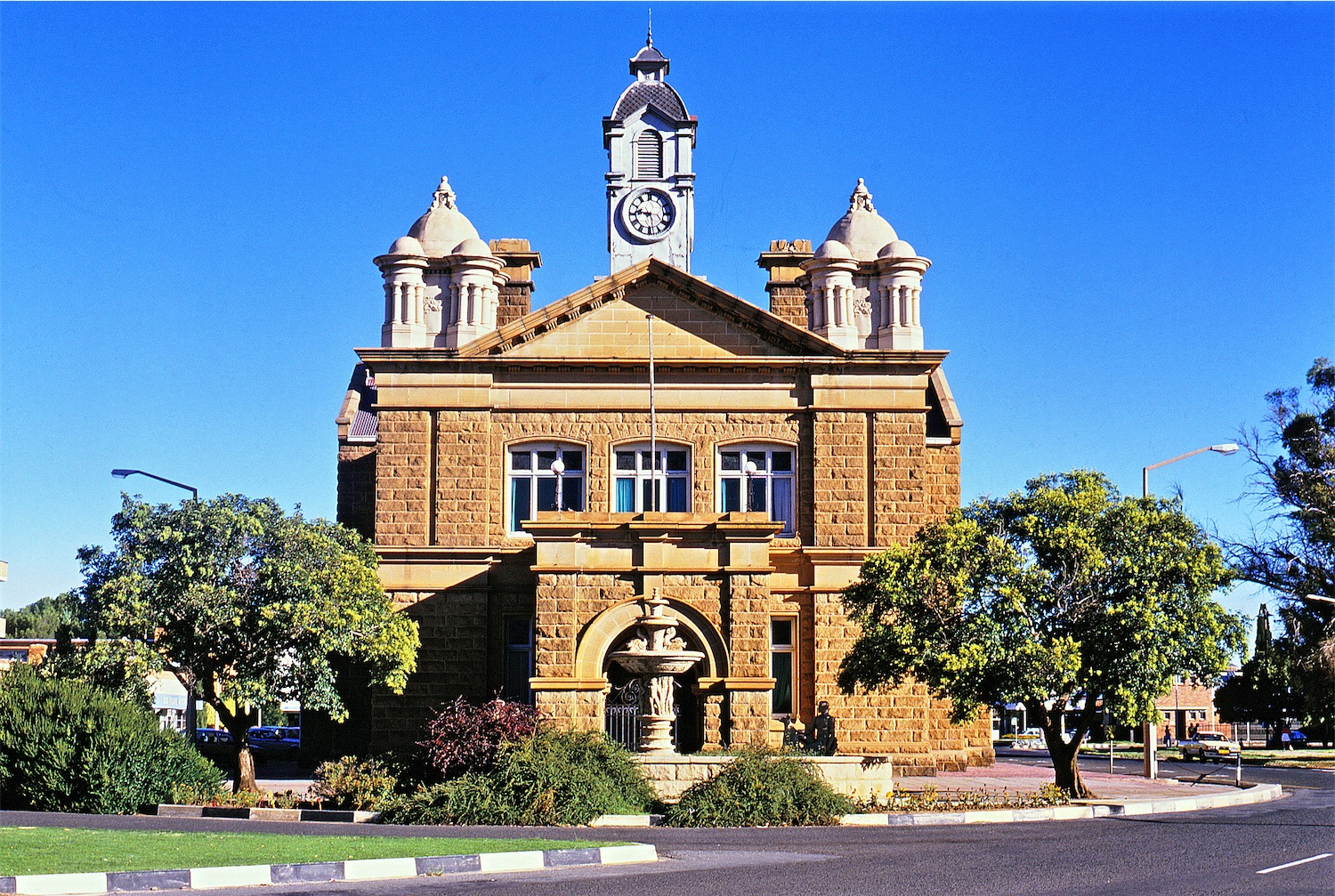 This media shows a South African Protected Site with SAHRA file reference 9/2/324/0008.